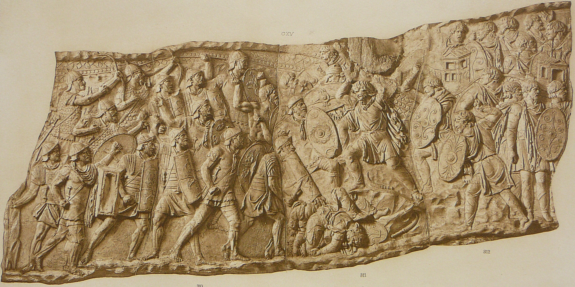 A sally by the besieged (scene CXV)